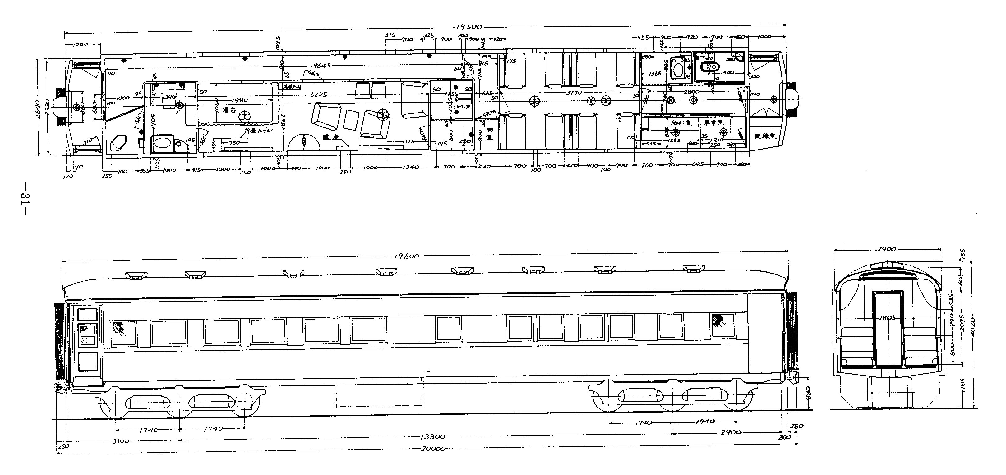 Type drawing of JNR's Imperial Car (Goryosha) No.14